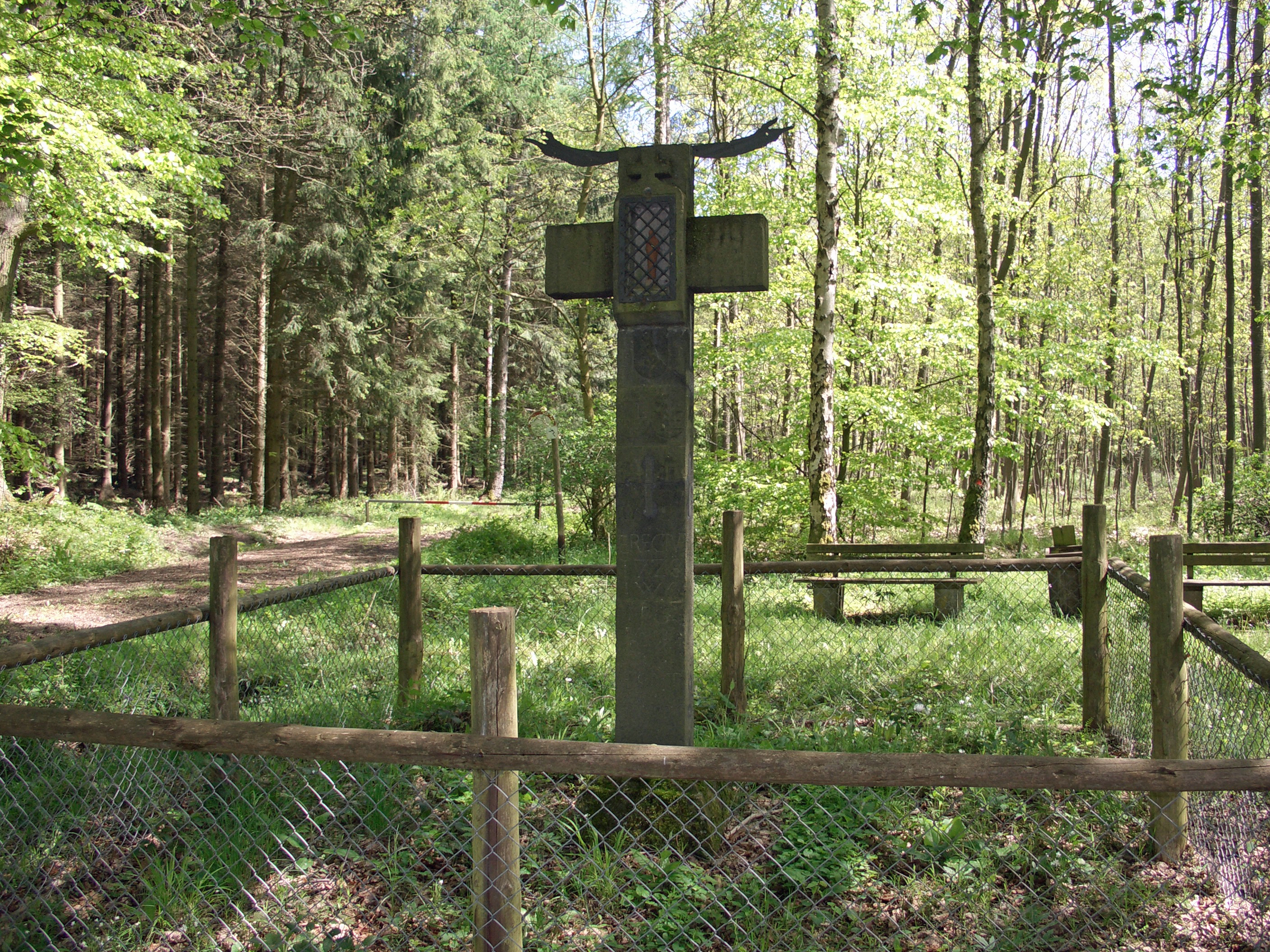 „Eiserne Hand“ in Koblenz